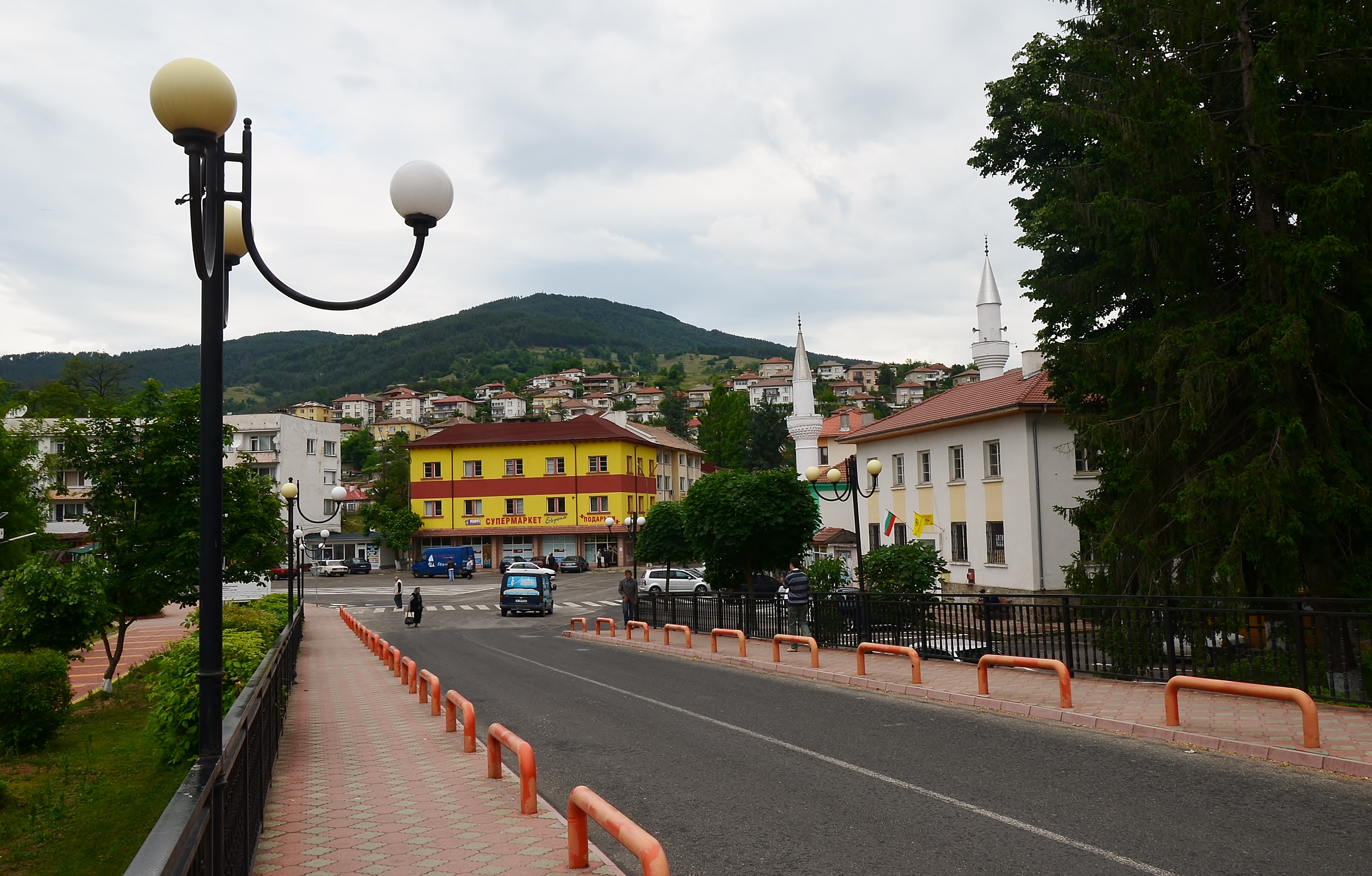 Ardino